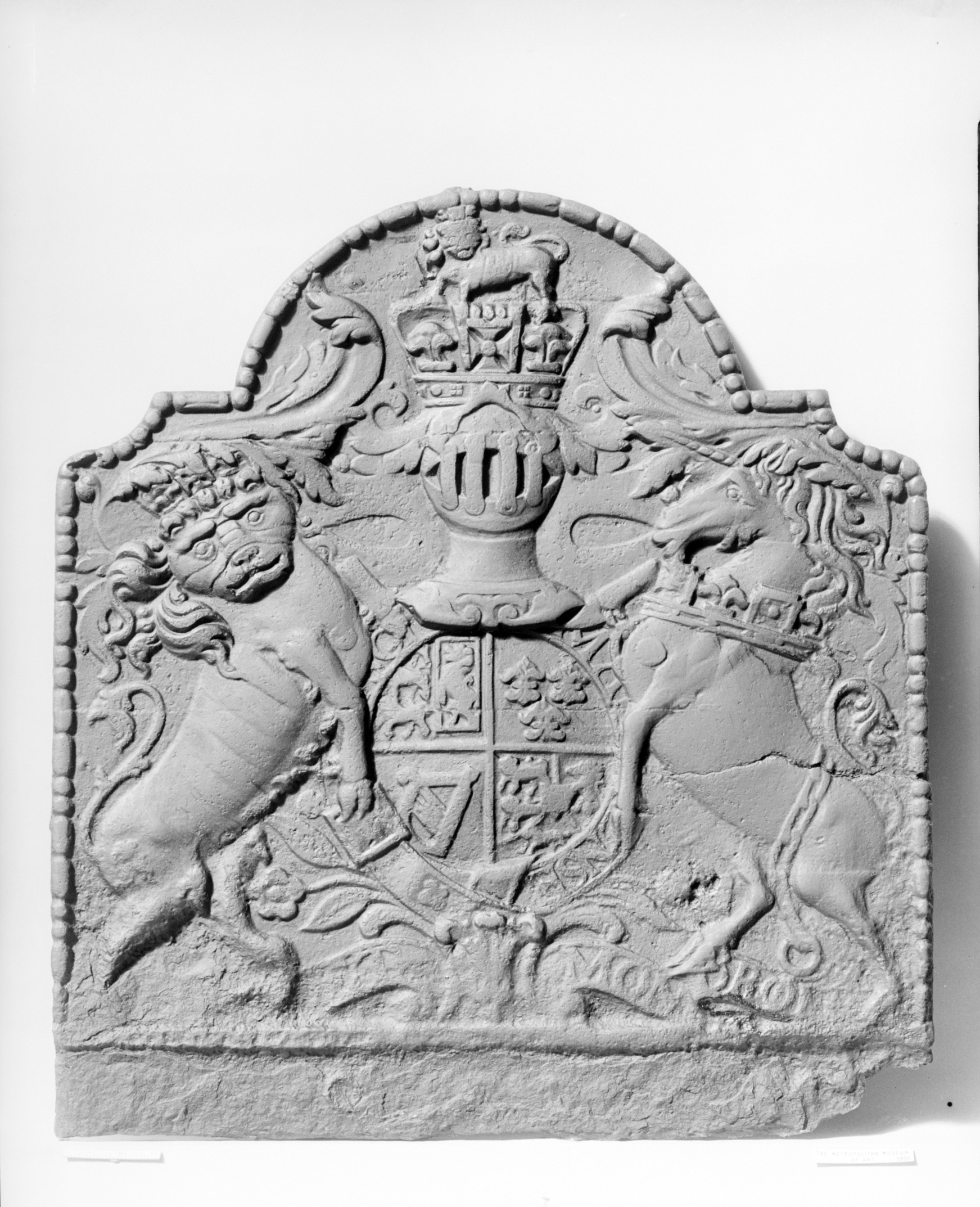 American; Fireback; Metal Cast iron fireplace fireback, embossed design, cast with the royal coat-of-arms of Great Britain during the reign of King George II